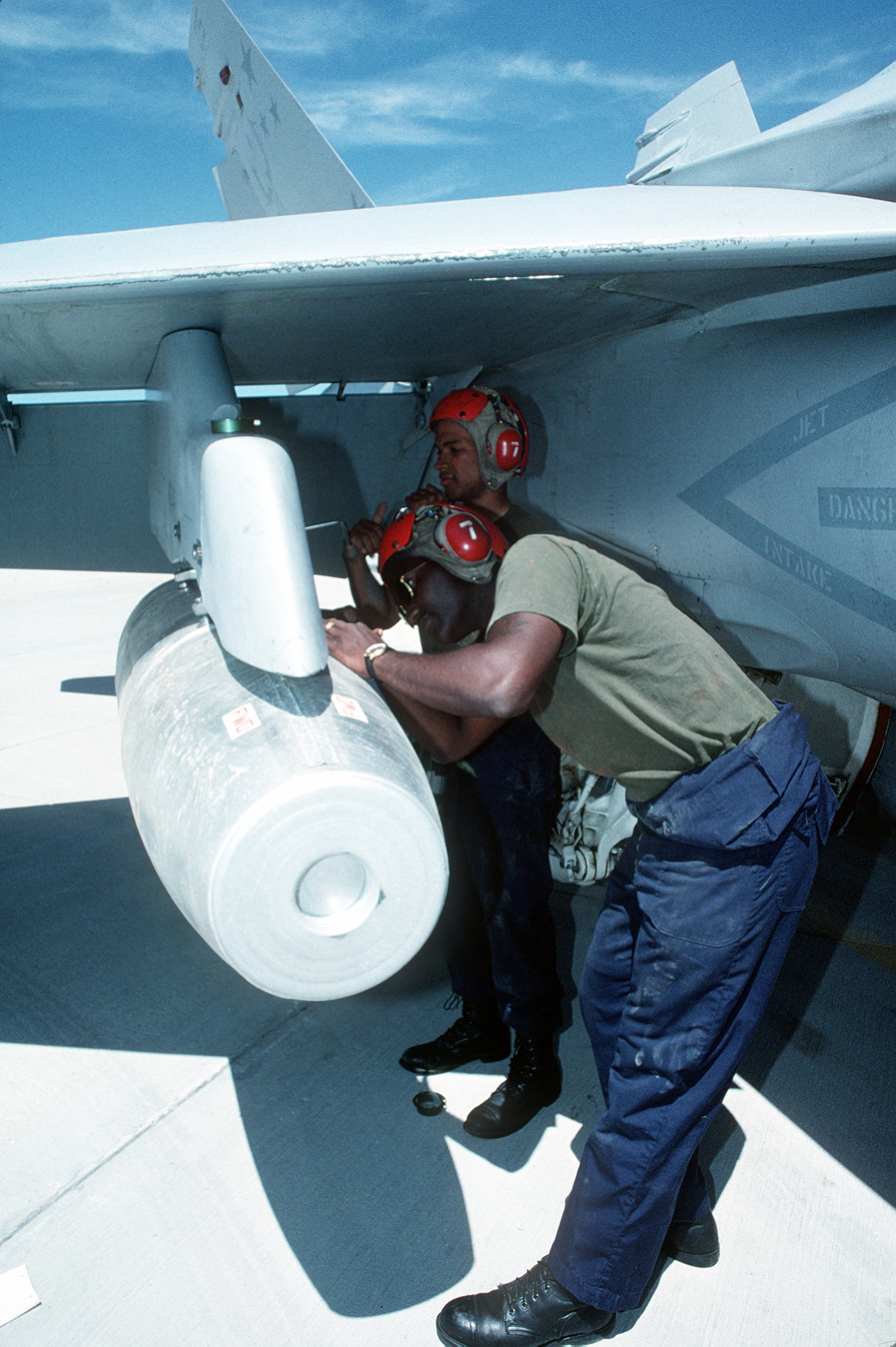 Sgt. Jamal G. Walker and Lance Cpl. Carl Feaster tighten the sway braces on a Mark 77 napalm bomb while loading it onto the wing pylon of a Marine Strike Fighter Squadron 321 (VMHA-321) F/A-18A Hornet aircraft at Naval Air Station Fallon. The reserve squadron is at Fallon for two weeks of active duty training at the Naval Air Warfare Center target complex.